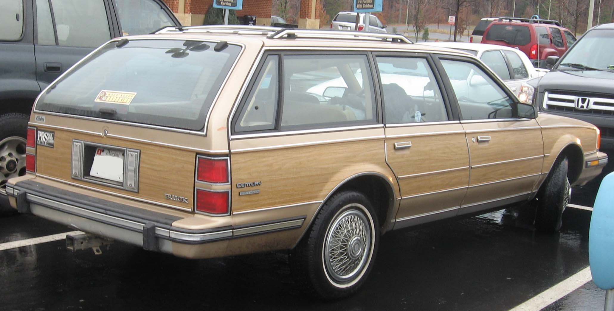 1982-1988 Buick Century photographed in Accokeek, Maryland, USA.